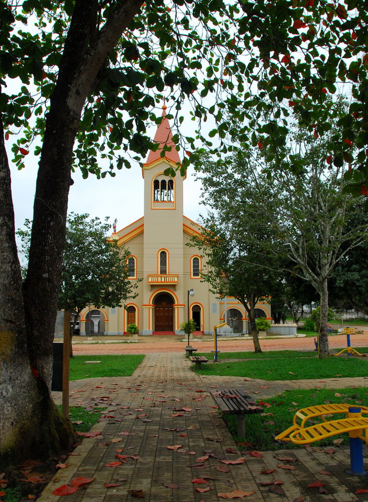 Igreja de São Sebastião - Xapuri/AC